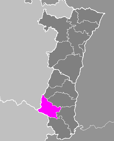 Maps of arrondissements and cantons of France: Arrondissement de Thann.PNG (Région Alsace)